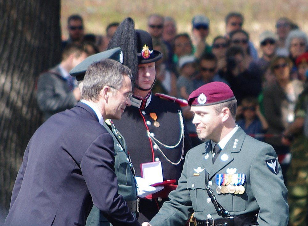 Captain Jørg Lian prior to receiving the War Cross w/Sword at a ceremony 8 May 2011 at Akershus Fortress in Oslo, Norway